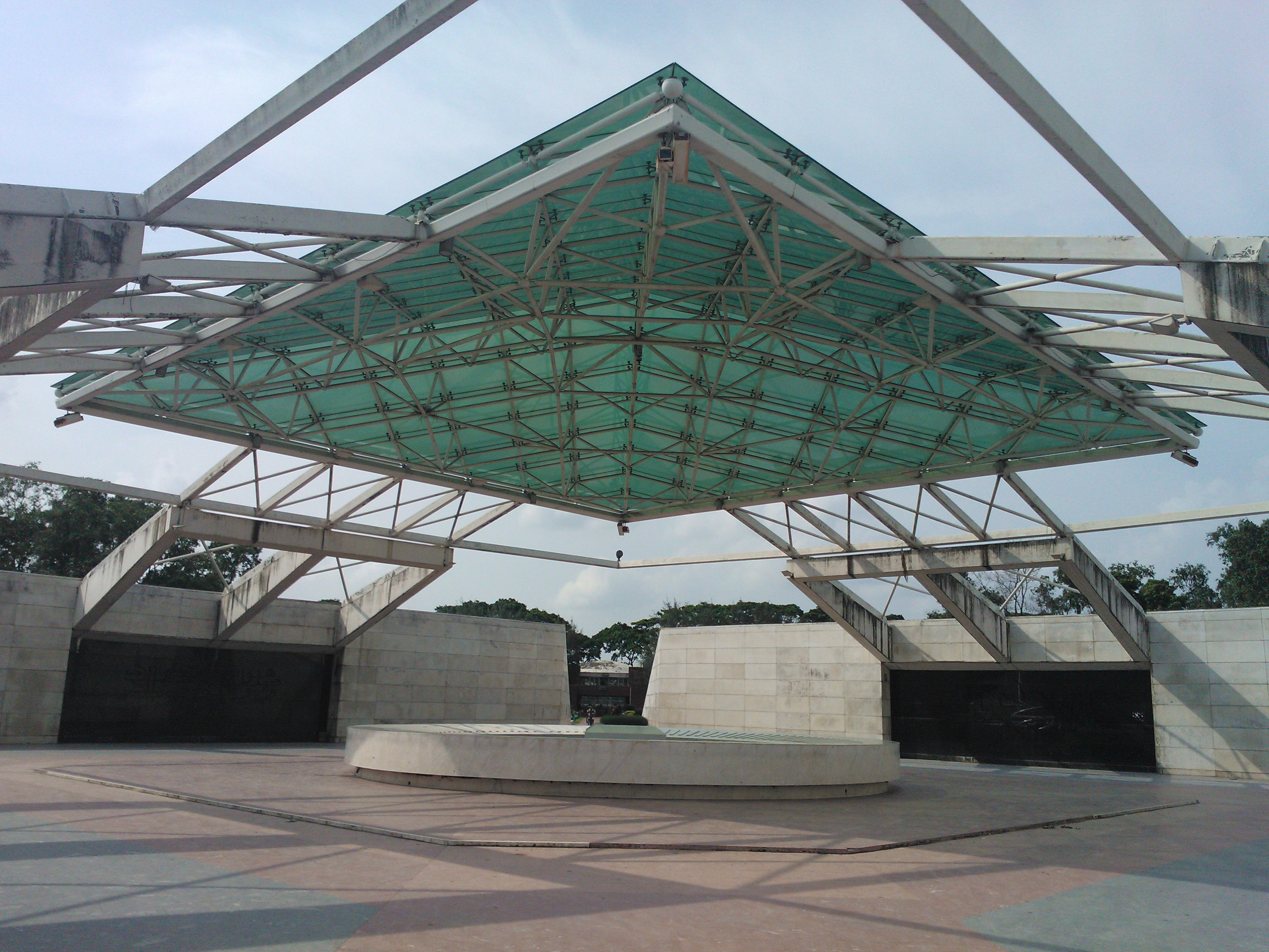 Mausoleum of late Bangladeshi President Ziaur Rahman in Dhaka.